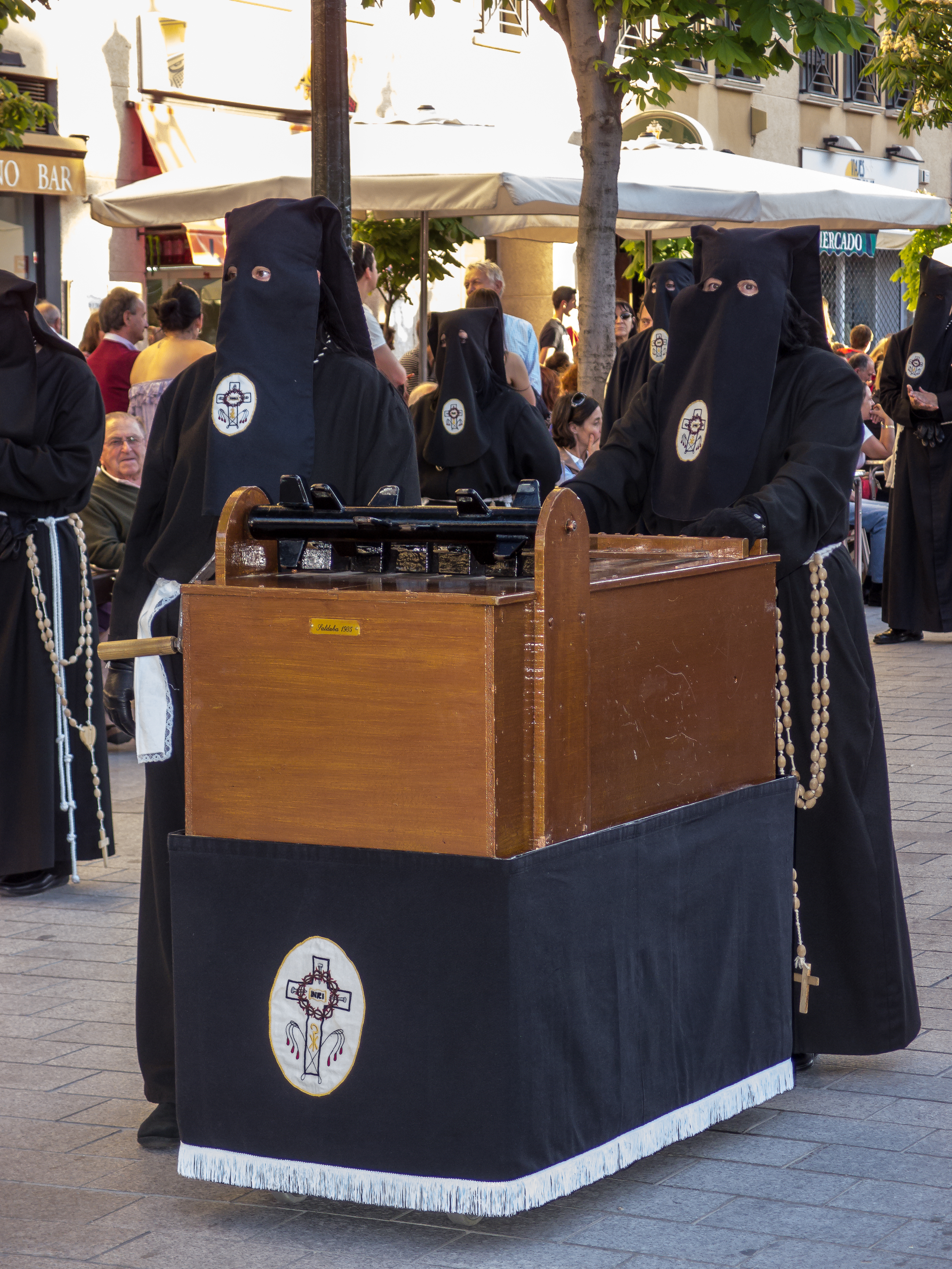 OLYMPUS DIGITAL CAMERA This is a photography of a Folklore festival in Spain (Wikidata id Q9075892).